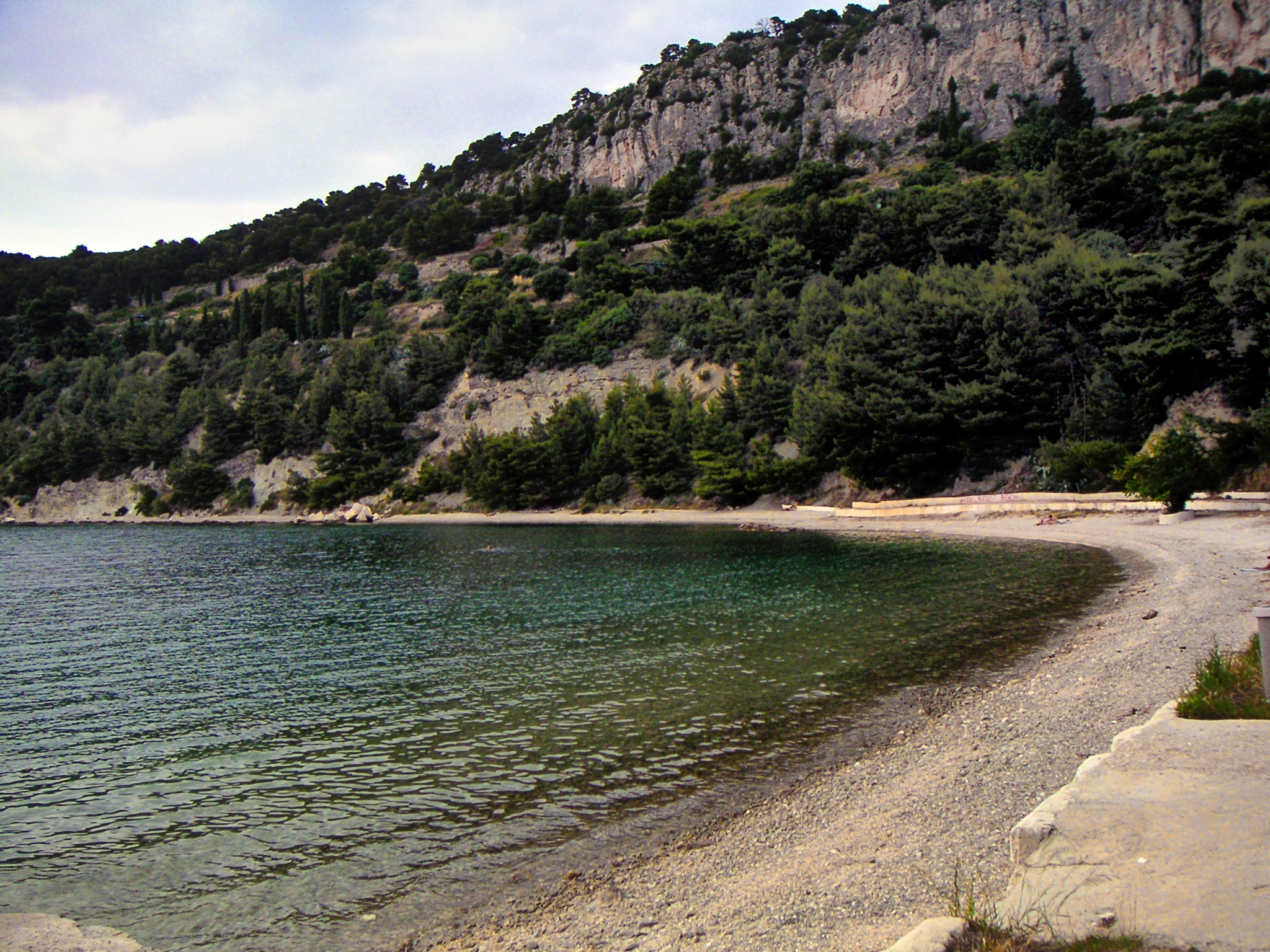 Kasuni beash in Split, Croatia